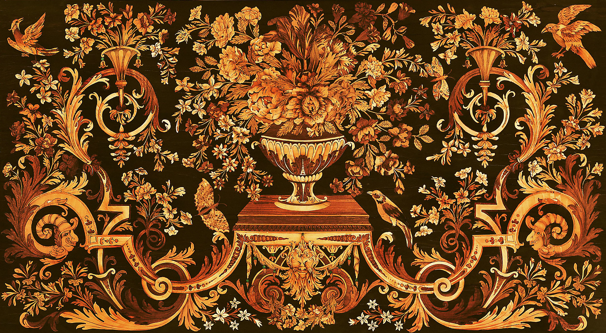 Detail of Knee-Hole Desk attributed to Pierre Golle. Circa 1680